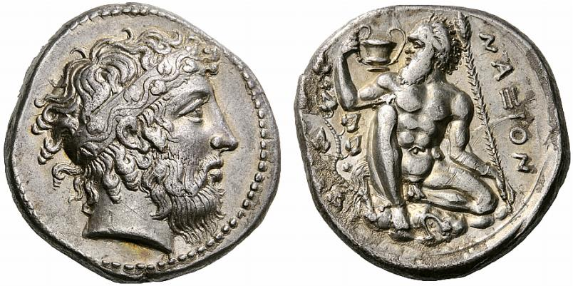 Coin of Naxos (Sicily). Circa 430-420 BC. Tetradrachm (Silver, 17.19 g 2), circa 425. Bearded head of Dionysos to right, wearing a hair band ornamented with an ivy wreath, and with his relatively short hair hanging loose in curly locks. Rev. NAXION Nude and bearded Silenos squatting, facing, his right knee raised, his left on the ground, and his tail coming out to left, turning his head to the left towards the two-handled, stemless drinking cup he holds in his right hand, and holding an upright thyrsos with his left; to left, ivy branch.